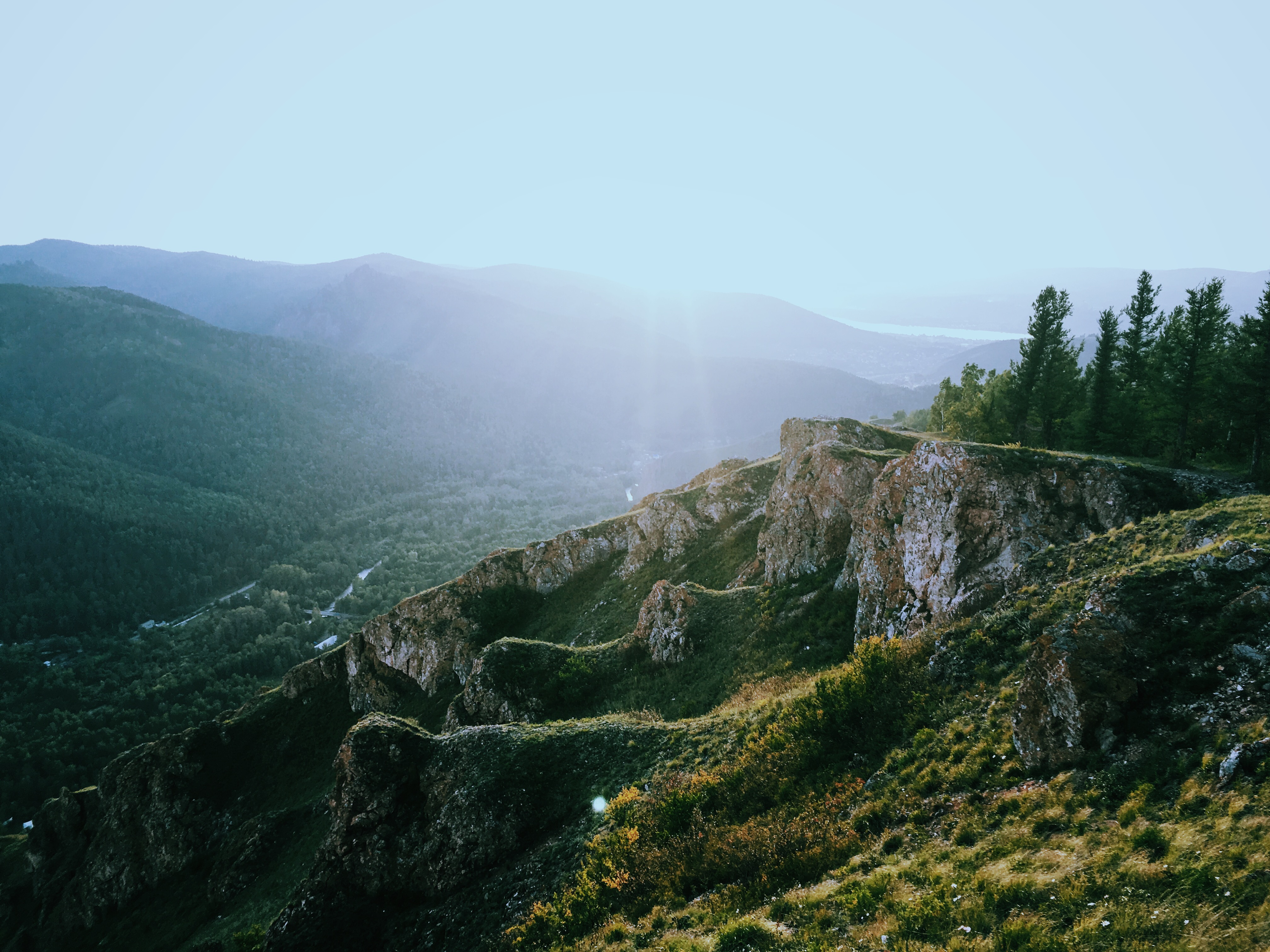 Красноярск, Россия